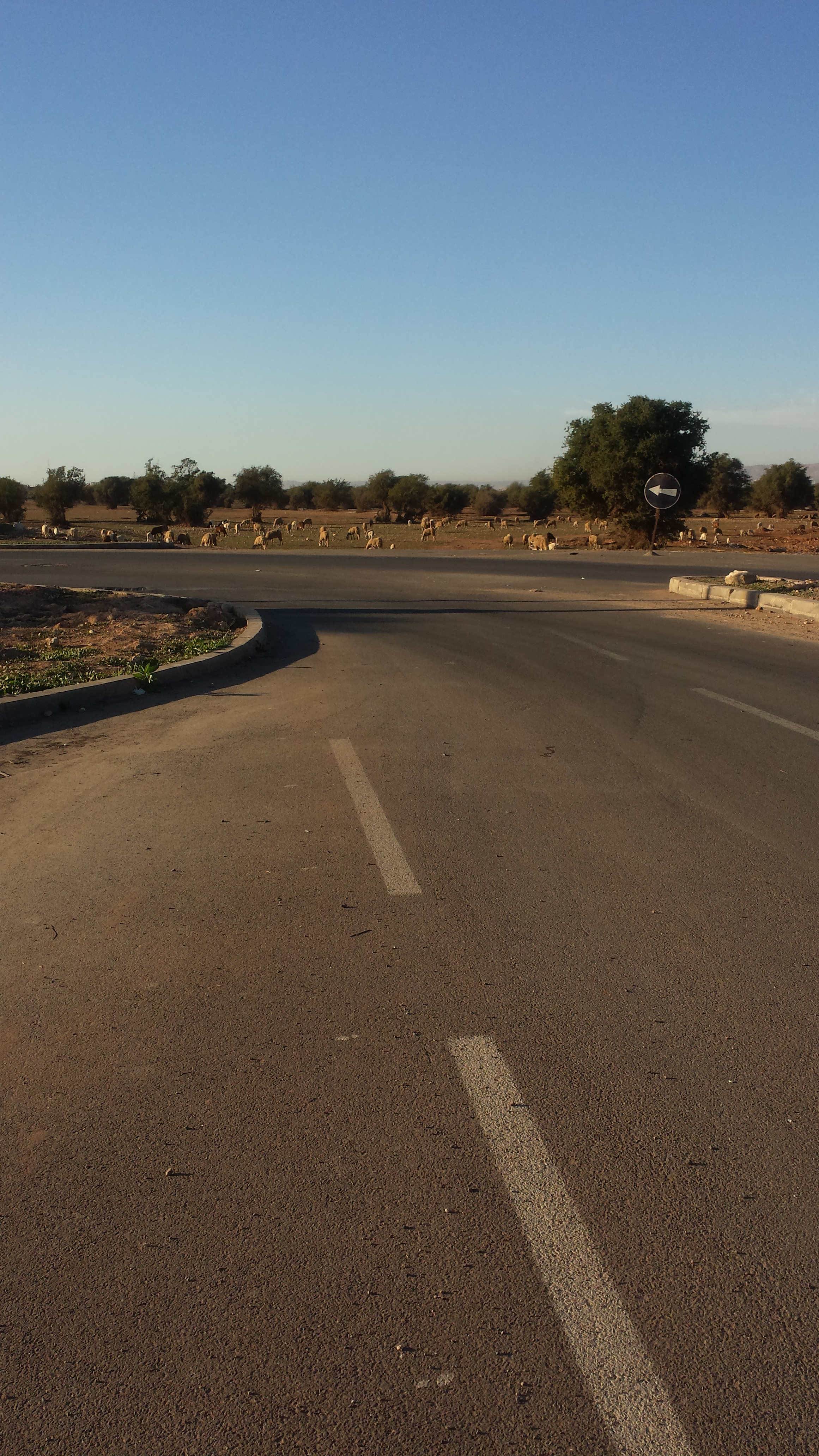 Route de talaint vers le parc de lqliaa This is an image with the theme "Africa on the Move or Transport" from: Morocco